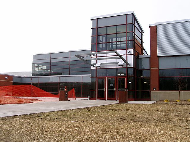 This is a photograph of Geneva High School in Geneva, Ohio. It is a new complex which opened on January 3, 2006. Orange construction fencing still surrounds the school's front courtyard. The photograph was taken on March 31, 2006. I release all rights to this photograph.